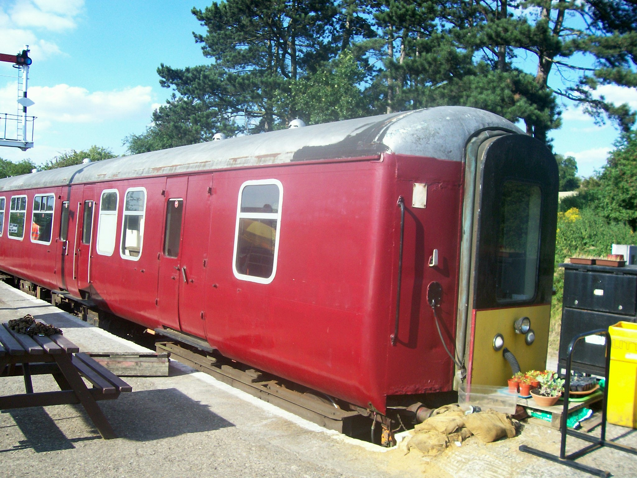 A picture of BS0 number 9102 at the Northampton & Lamport Railway